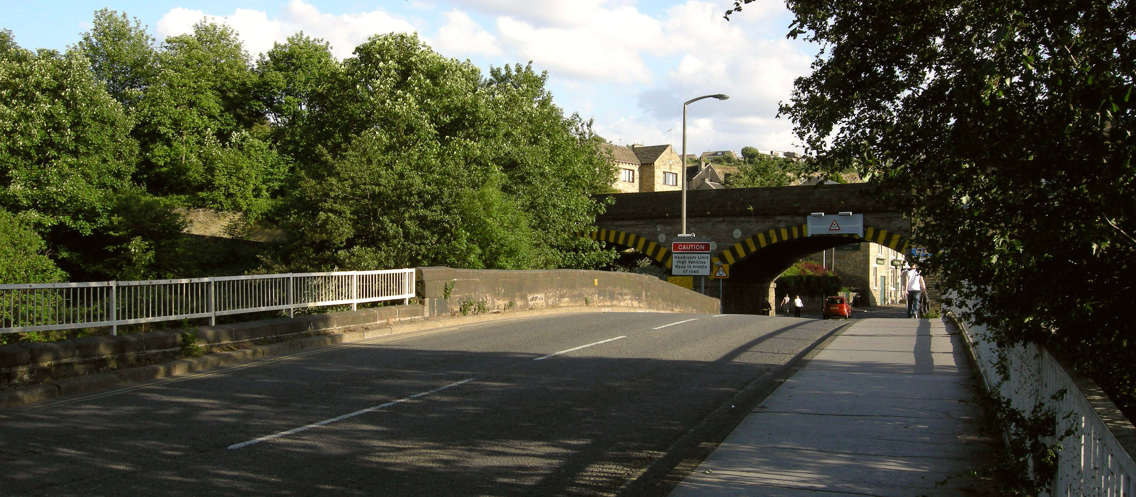 Rastrick Bridge, Bridge Road/Bridge End, Brighouse/Rastrick, Calderdale, West Yorkshire, England. On the A643 over the River Calder.